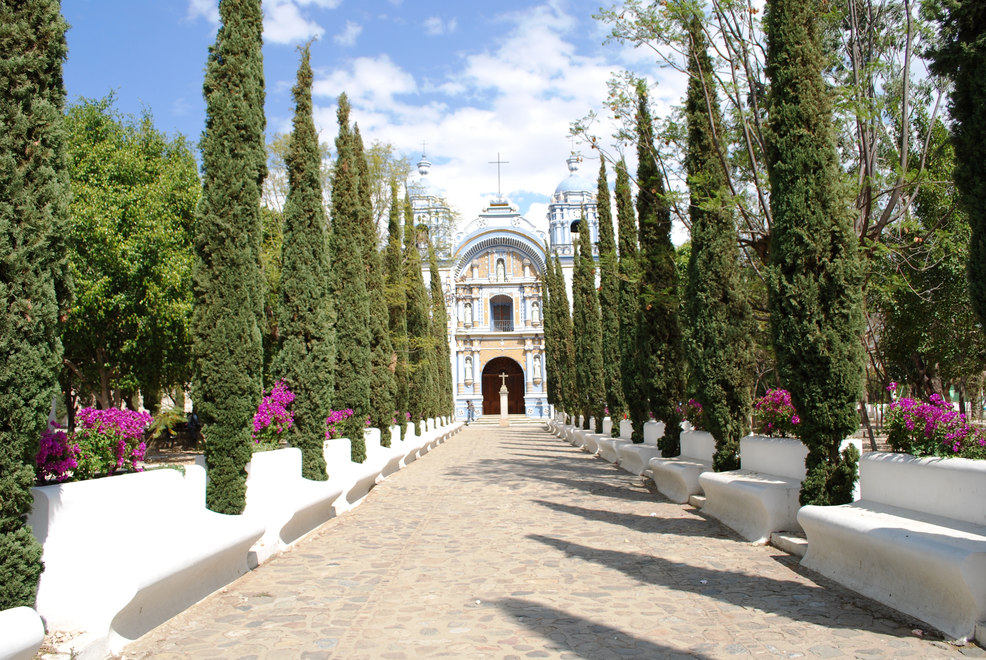 Atrium and facade of the Temple of Santo Domingo de Guzman in Ocotlan de Morelos, Oaxaca, Mexico